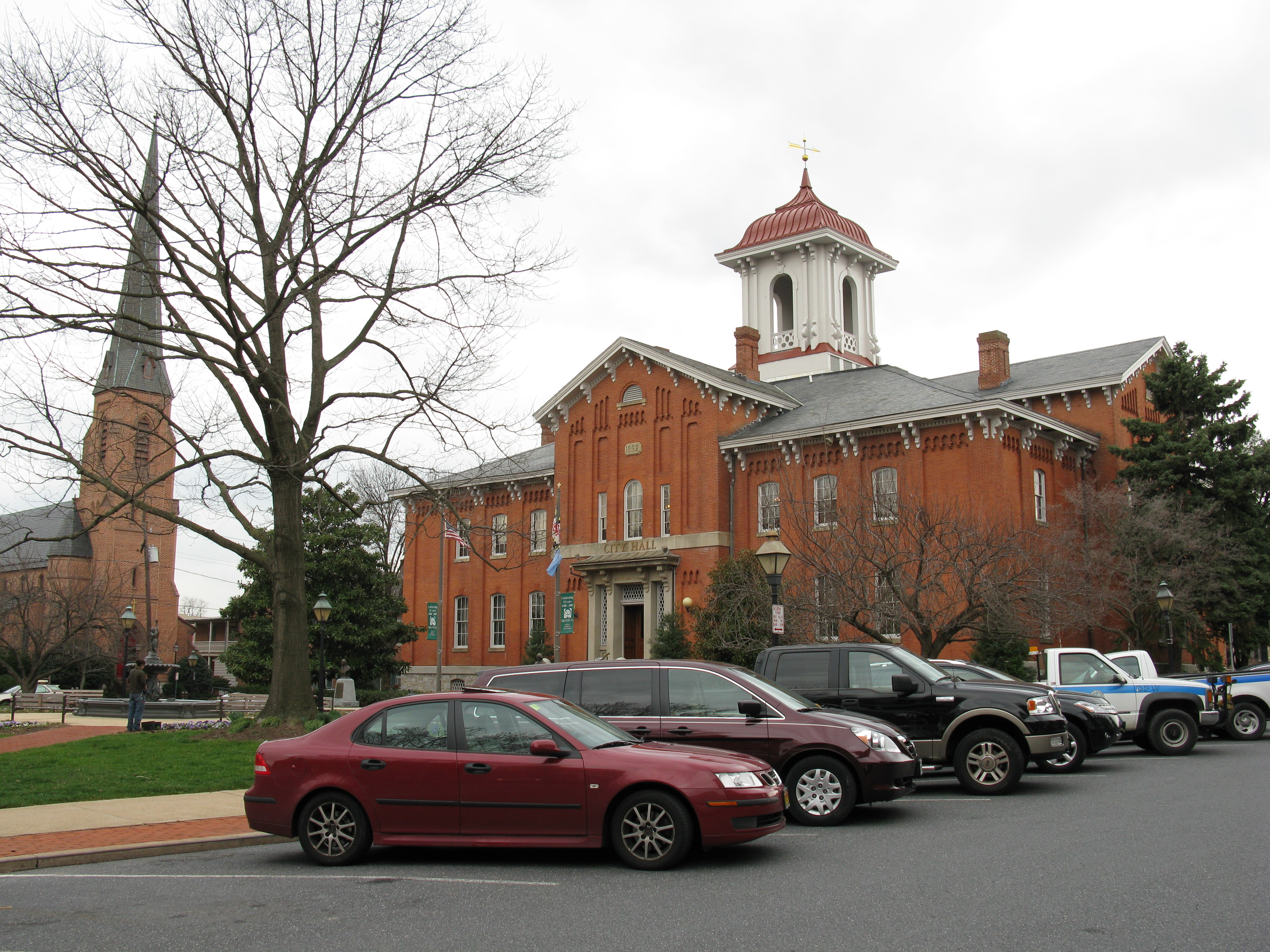 Back-in angle parking along Council Street, beside City Hall in Frederick, MD